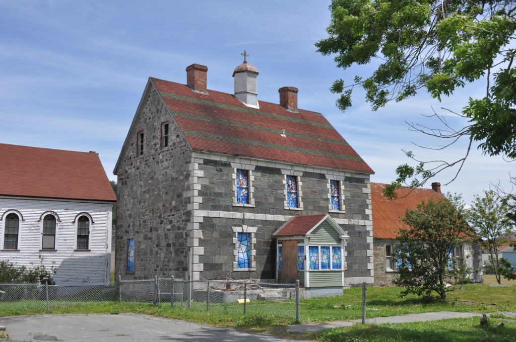 Our Lady of Angels / Presentation Convent Registered Heritage Structure, Placentia, Newfoundland.